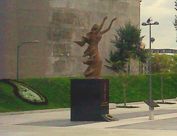 Khojaly Massacre Memorial in Mexico, in Plaza Tlaxcoaque-Jodyali